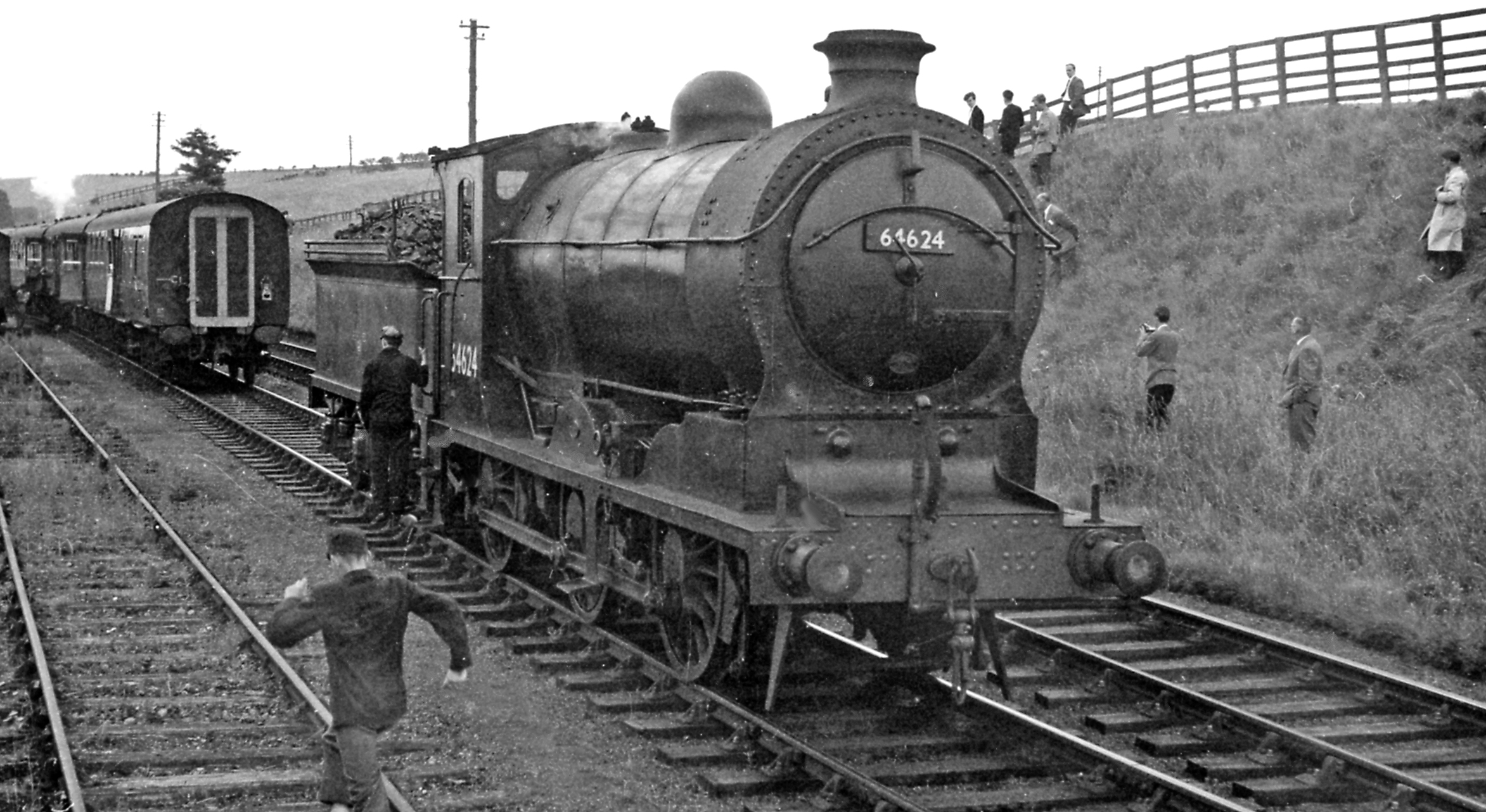 Ex-NB J37 0-6-0 on RCTS Borders Rail Tour at Greenlaw. Ex-NBR Reid class S (LNER J37) 0-6-0 No. 64624 has brought the RCTS Tour train from St Boswells and is about to take the train back there. It was built in 1/21 as NBR No. 272, became LNER No. 9272 (No. 4624 from 1946) and was withdrawn as BR 64624 in 1/66. (For details of the Tour see NT5731 : A Rail Tour train at St Boswells Station in 1961).